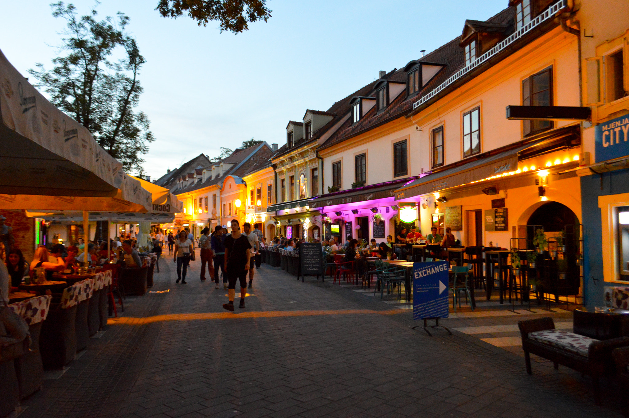 500px provided description: Restaurant Row [#buildings ,#center ,#historic ,#Europe ,#Croatia ,#Zagreb]